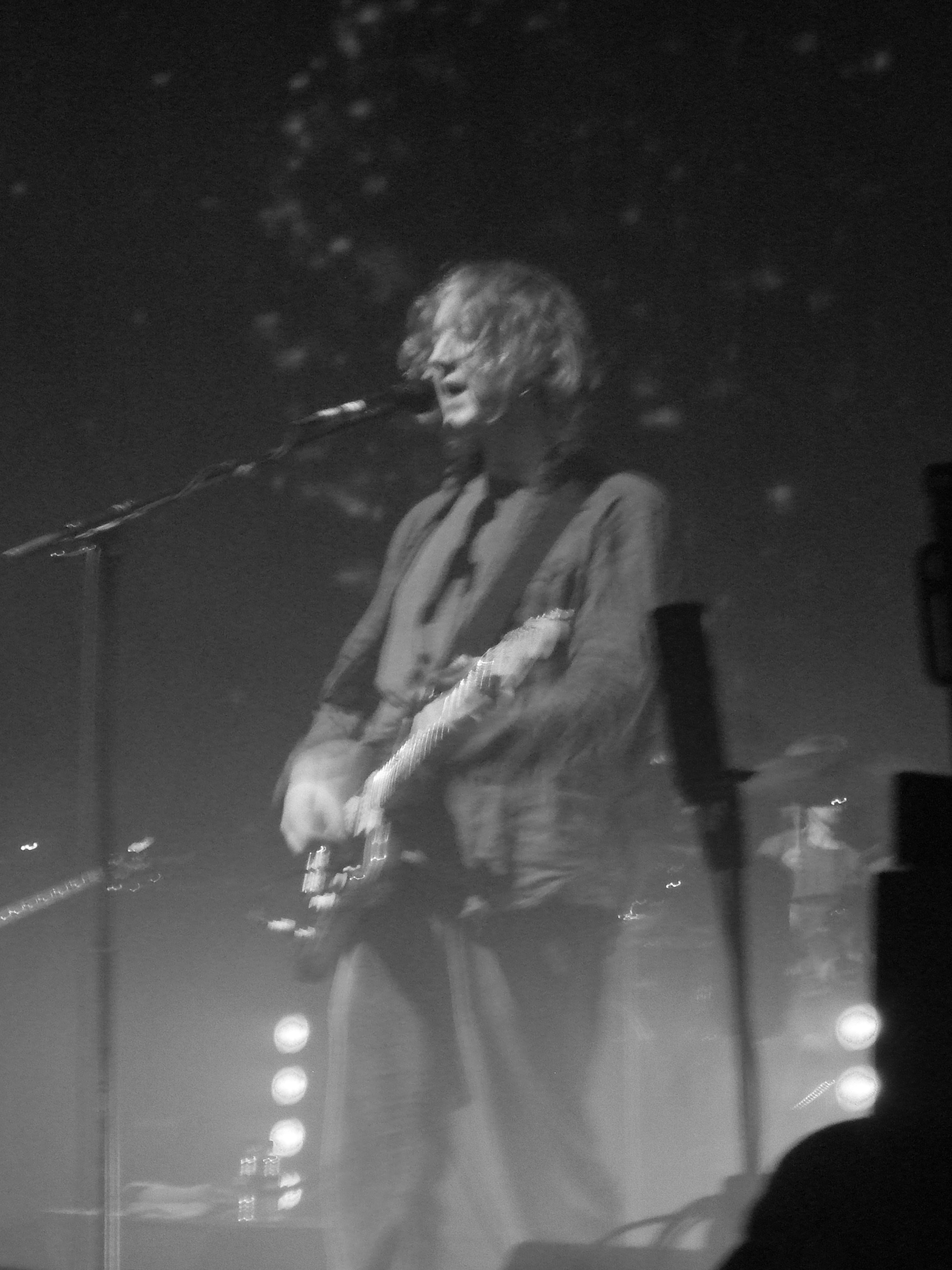 My Bloody Valentine @ The Roundhouse